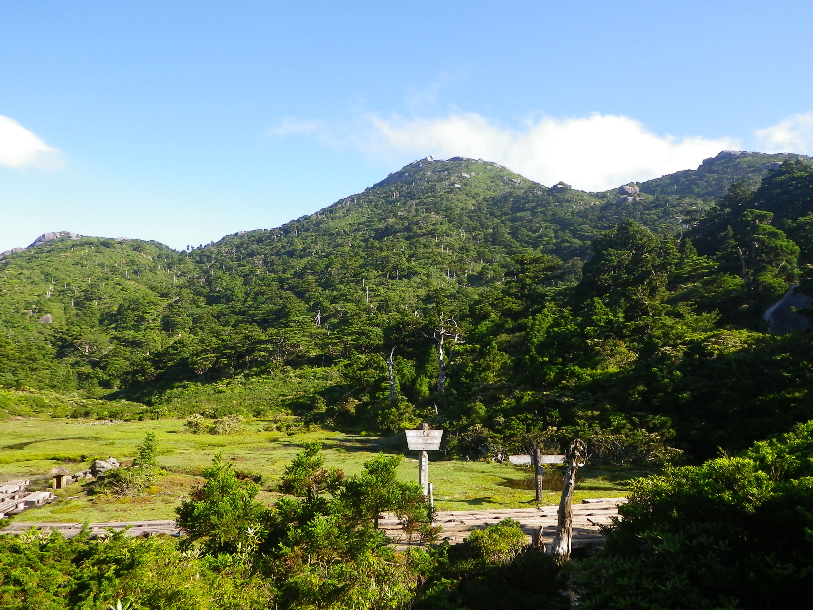 Mount Kuromi as seen from SSE in Yakushima, Japan. Taken from Hananoego.